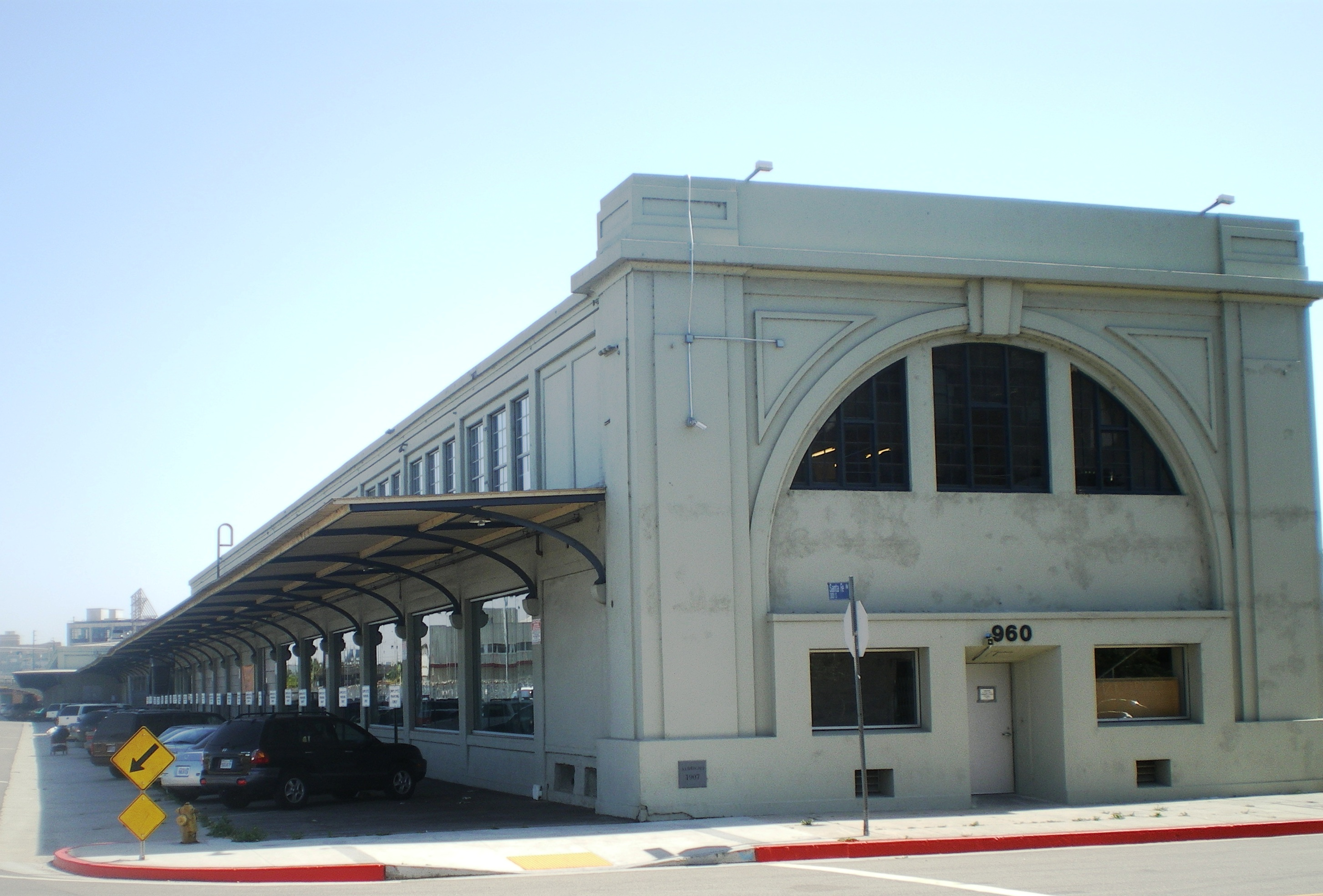 Santa Fe Freight Depot, 970 E. 3rd St., Los Angeles, California